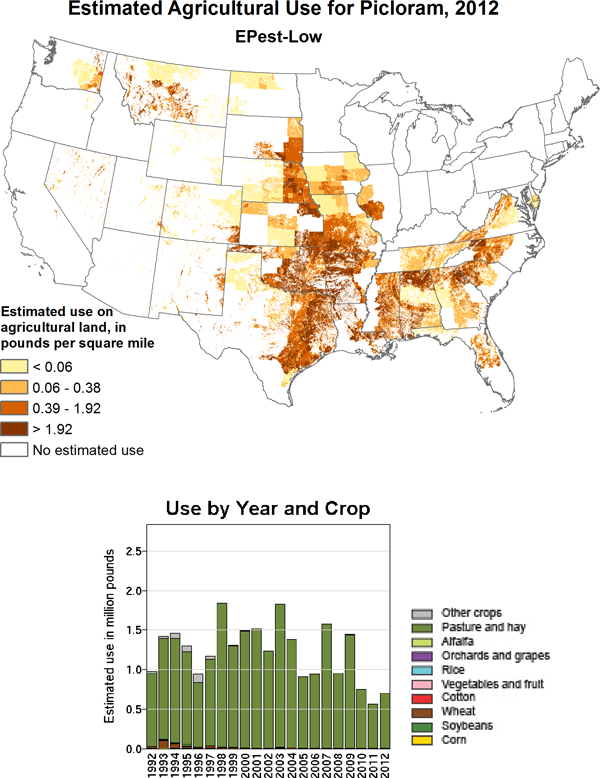 Picloram map of use, USA, 2012 (estimated)